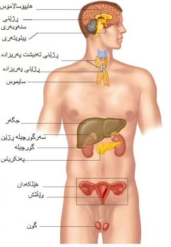 Pituitary gland's location in Human bodyKurdî: هیپۆفیز لە لەشی مرۆڤدا